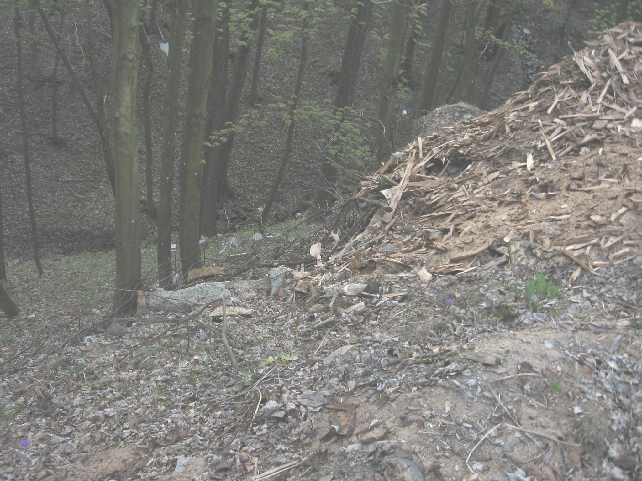 Illegal tipping with rubble, wood waste and garbage on the northwestern border of a nature reserve (Plästerleggen-Auf'm Kipp at Bestwig waterfall, NRW).